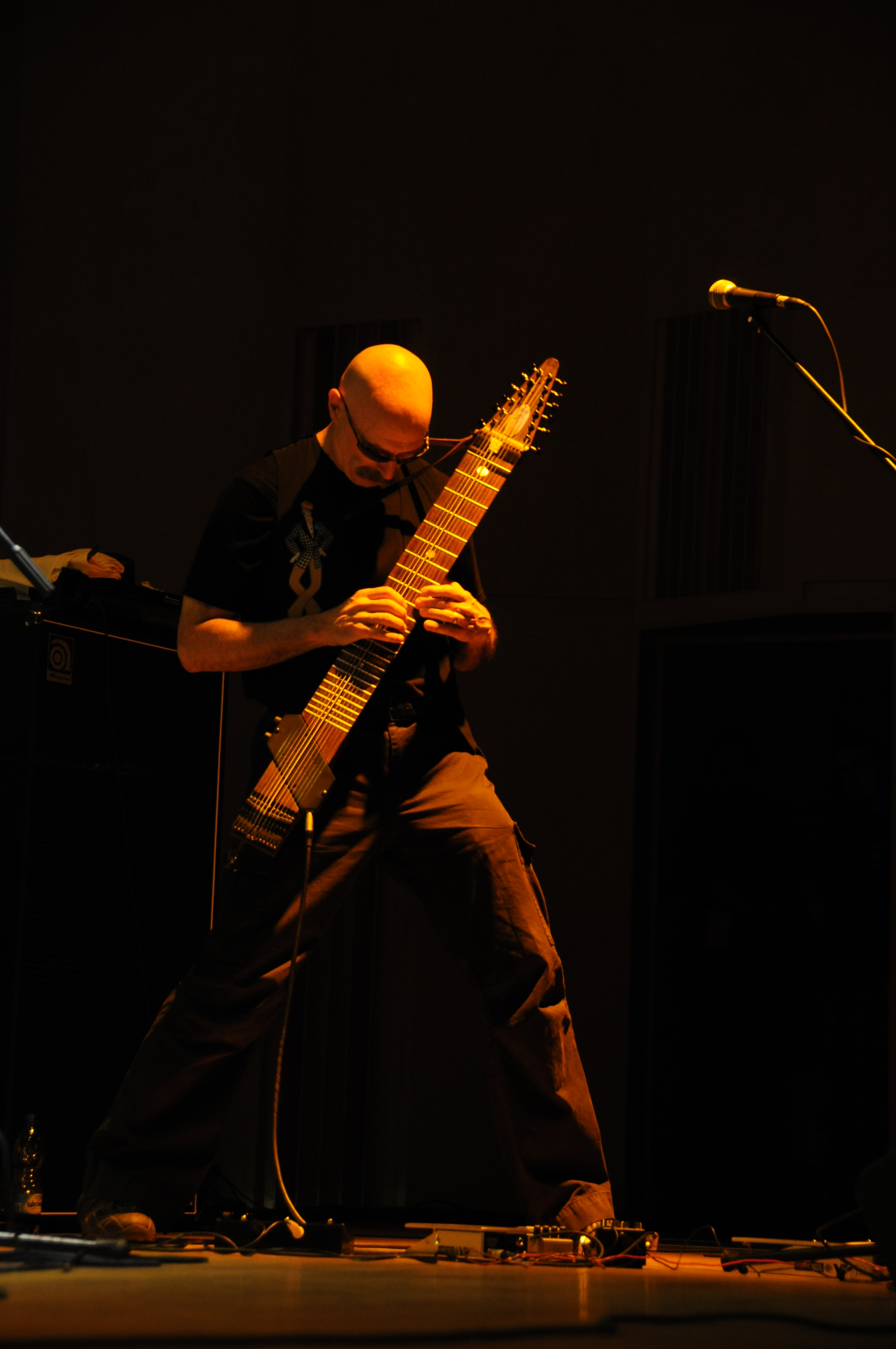 Tony Levin